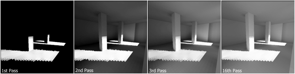 The Progress of the Radiosity Algorithm